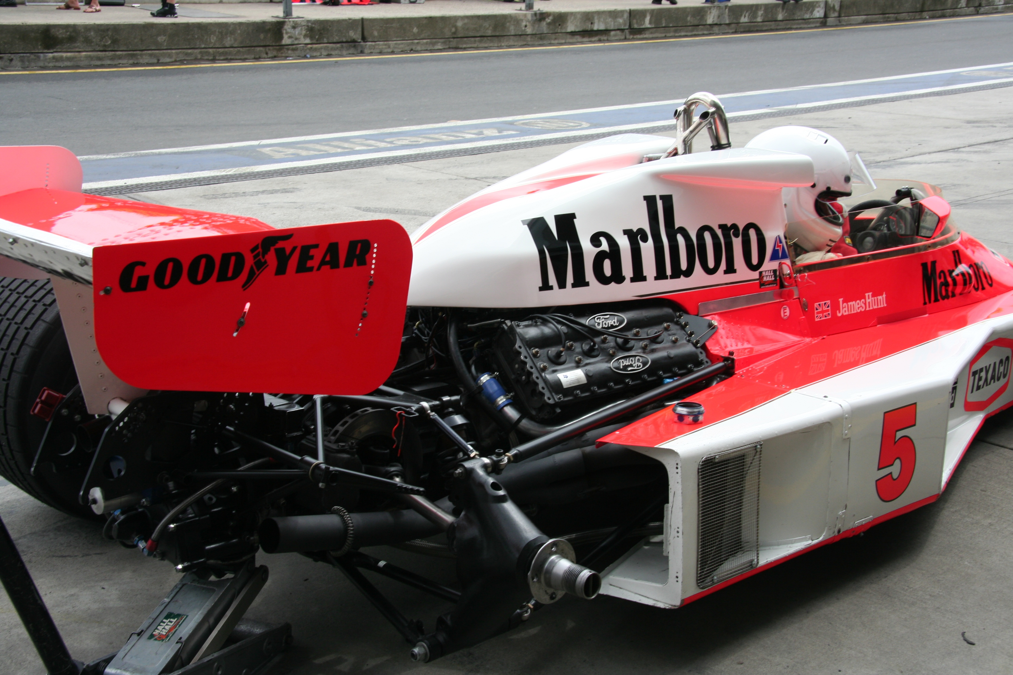 McLaren M23, formerly driven by James Hunt, the Oldtimer Festival DAMC; rider Andrea Burani, Italy; fastest lap on the Grand Prix circuit of the Nürburgring: 2:10,469 min = 142.05 km / h